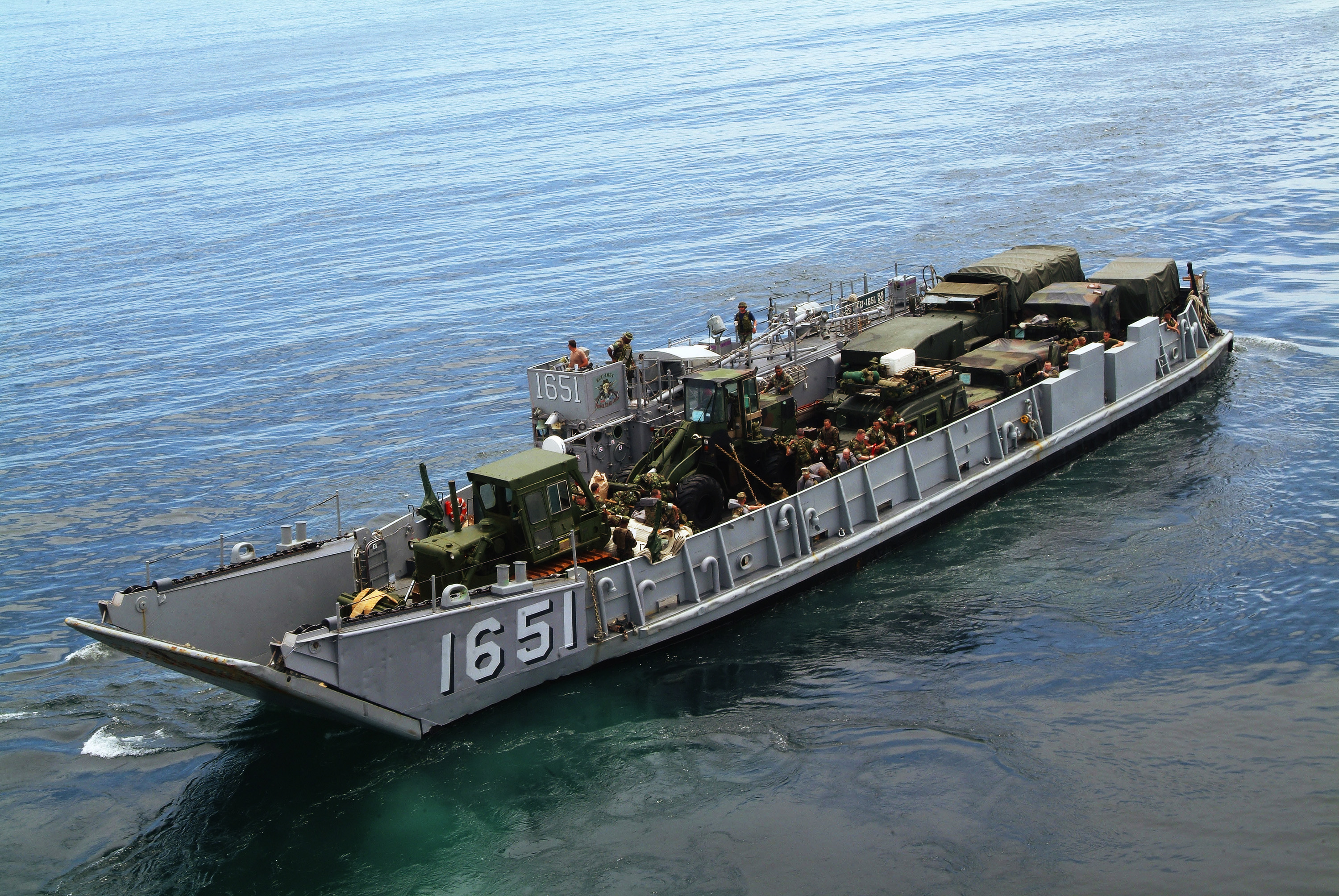 Philippine Sea (Sept. 15, 2003) -- A Landing Craft-Utility (LCU) transports Marines and equipment of the 31st Marine Expeditionary Unit (MEU) from the well deck of the amphibious assault ship USS Essex (LHD 2) to the shore at Subic Bay, Philippines during an Amphibious Ready Group (ARG) exercise. The Amphibious Specialty Training Team from Naval Beach Group One was on board to train and observe Essex crewmembers’ work with different types of landing craft in the ship's well deck. The semi-annual exercise provides familiarization training and prepares both services to act as a cohesive unit. U.S. Navy photo by Photographer’s Mate Airman Marvin E. Thompson Jr. (RELEASED)